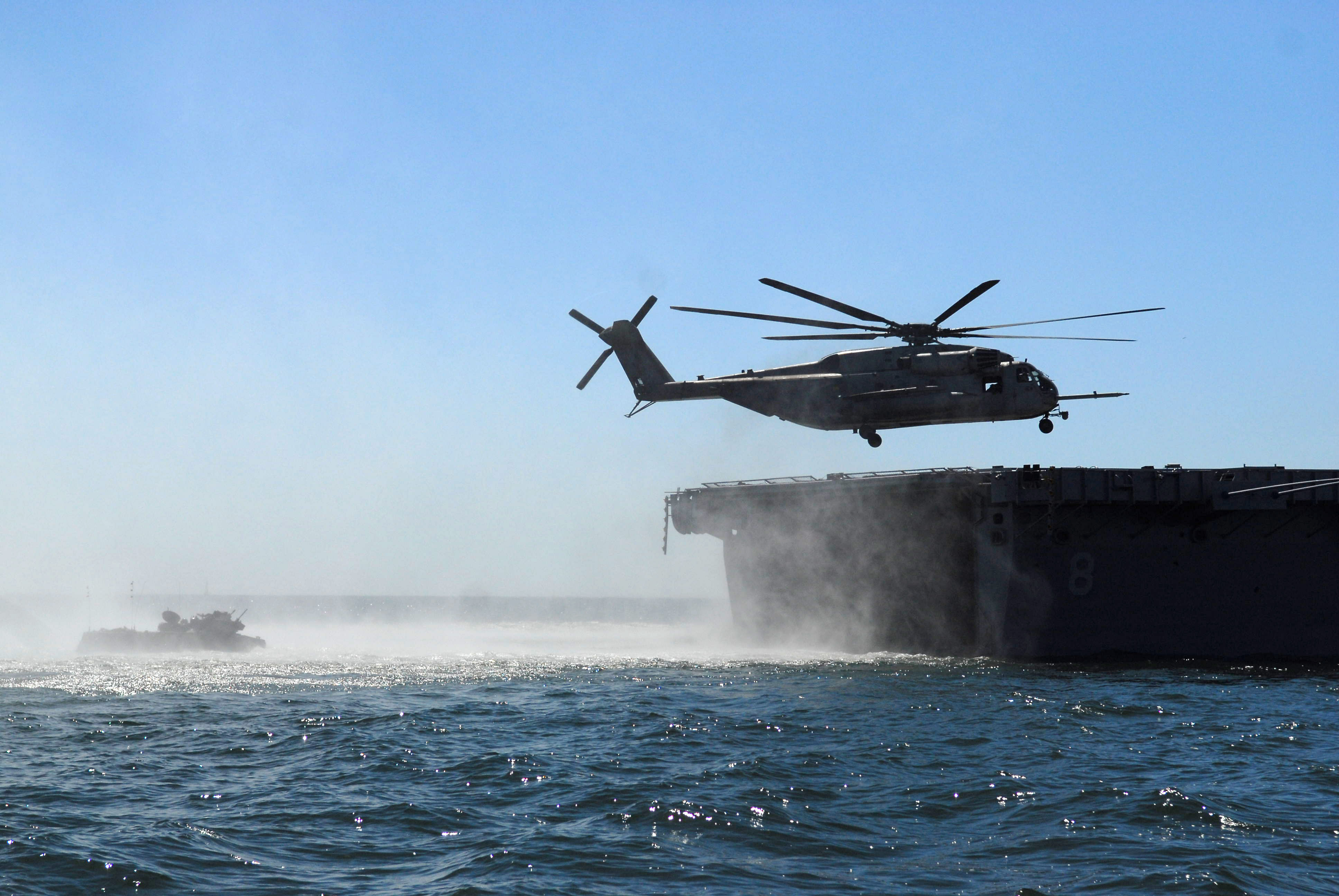 PACIFIC OCEAN (March 17, 2010) An amphibious assault vehicle assigned to the 1st Battalion, 4th Marines based in Camp Pendleton, Calif., transits to the amphibious transport dock ship USS Dubuque (LPD 8) during a composite unit training exercise in preparation for an upcoming deployment. (U.S. Navy photo by Mass Communication Specialist 1st Class David McKee/Released)